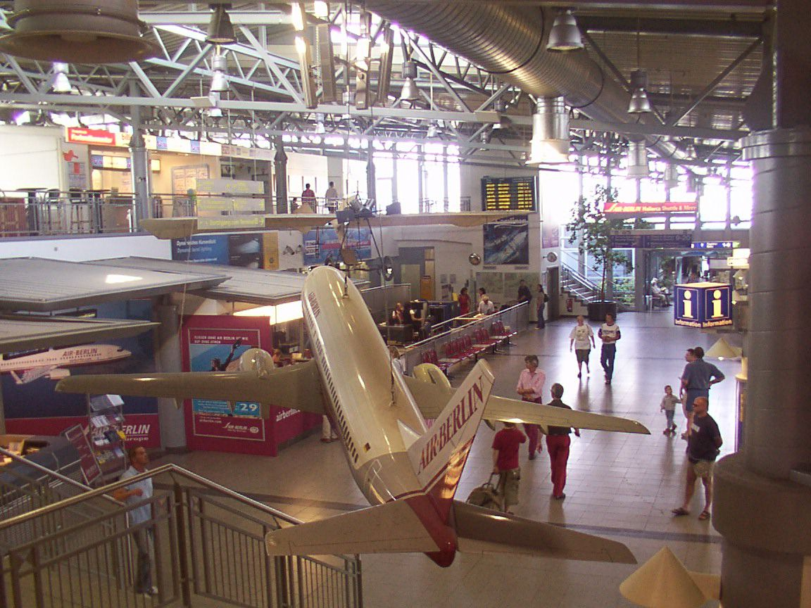 Airport Paderborn-Lippstadt in Büren: Departure Lounge